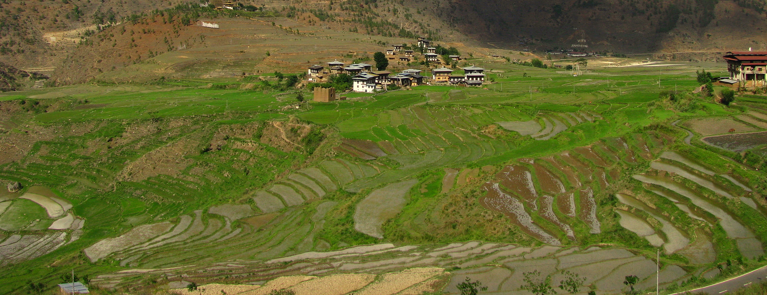 Stepped farming (agricultural terraces) for rice paddies — agriculture in Paro district of Bhutan.